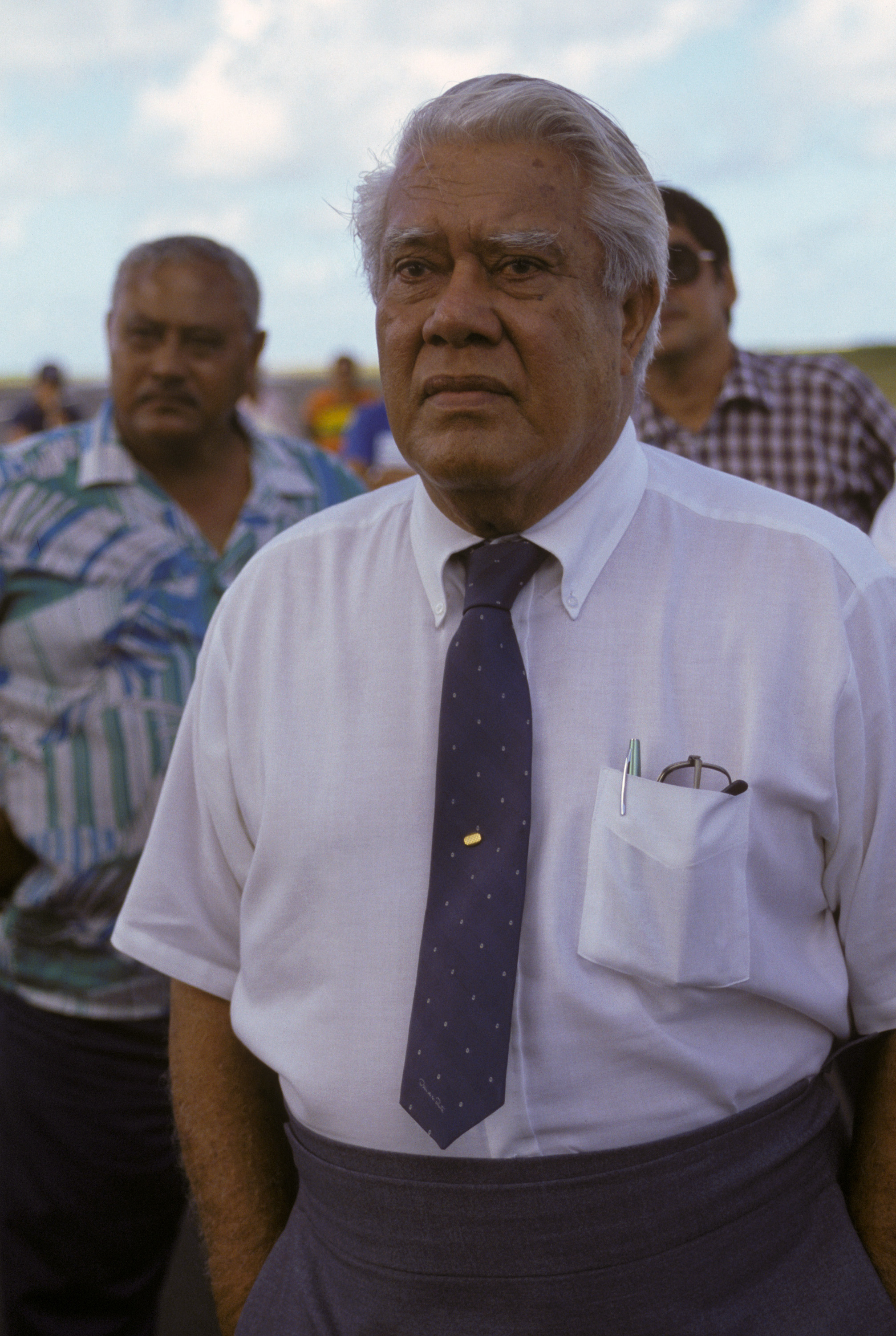 Samoan Governor A.P. Lutali looks on as members of the 22nd Military Airlift Squadron unload an emergency generator and equipment at the Pago Pago International Airport. The generator was airlifted to the island aboard a C-5 Galaxy aircraft.